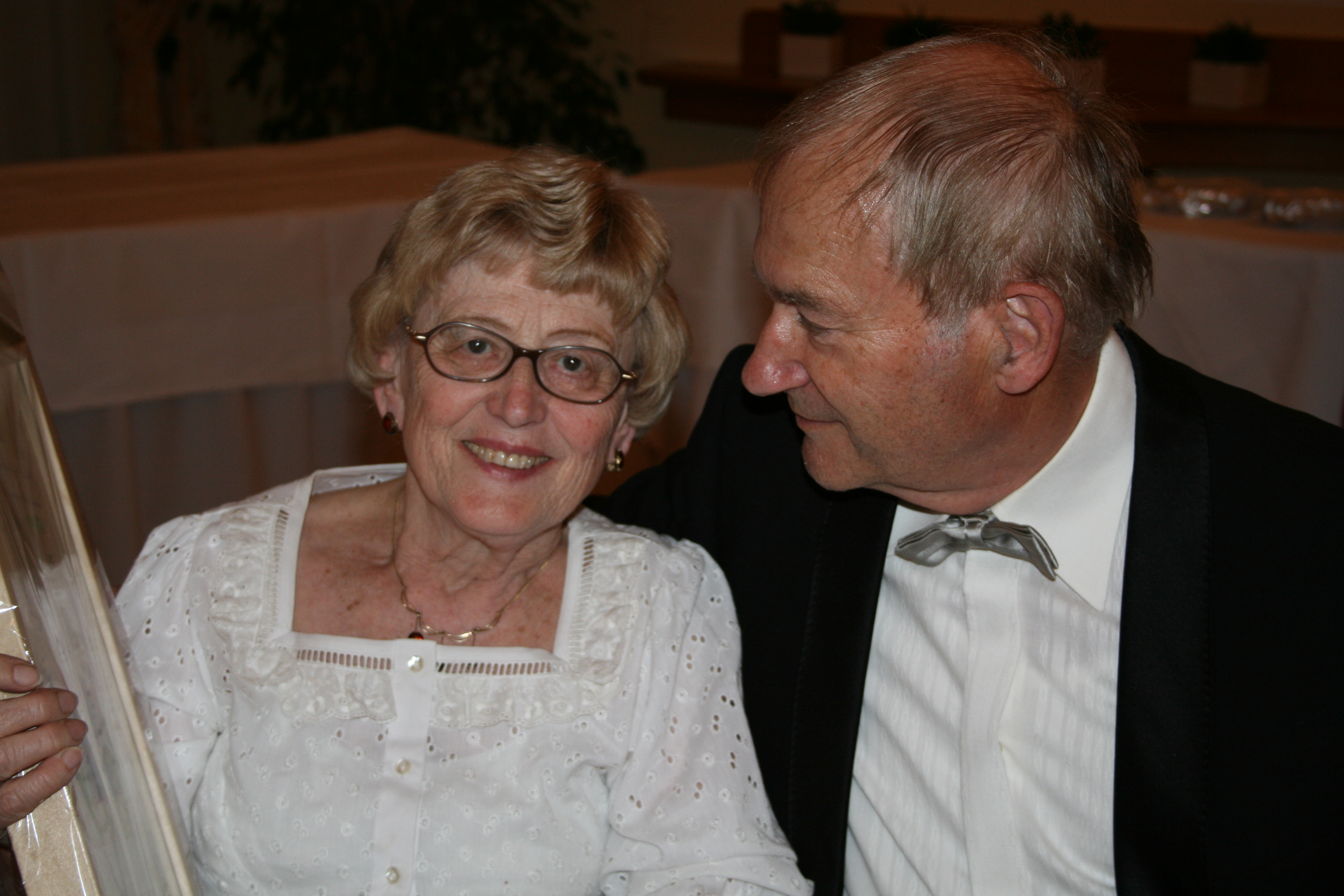 Eckehard V. Dehmlow and Sigrid S. Dehmlow